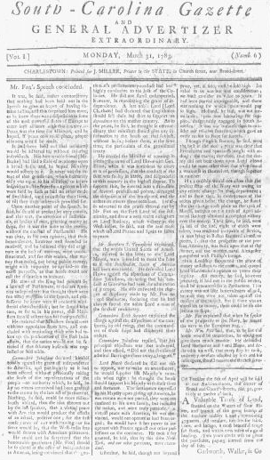 South-Carolina Gazette and General Advertiser; Date: 03-31-1783 (Charlestown, South Carolina)